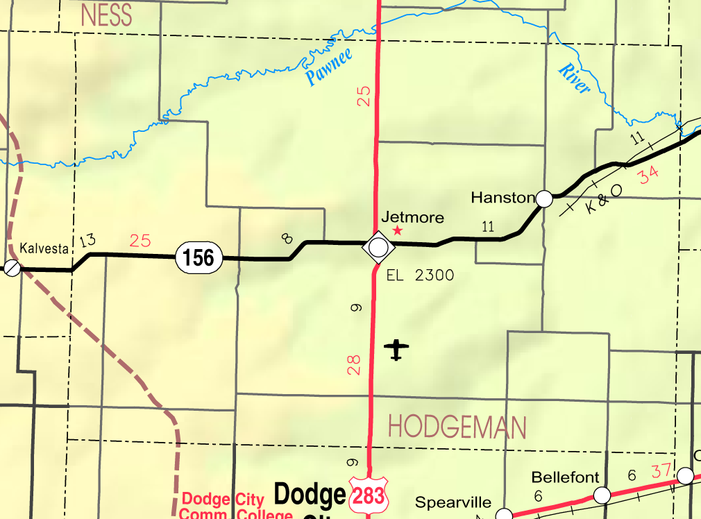 This map of Hodgeman County, Kansas, USA, is copied at a resolution of 300 pixels/inch from the original PDF file.